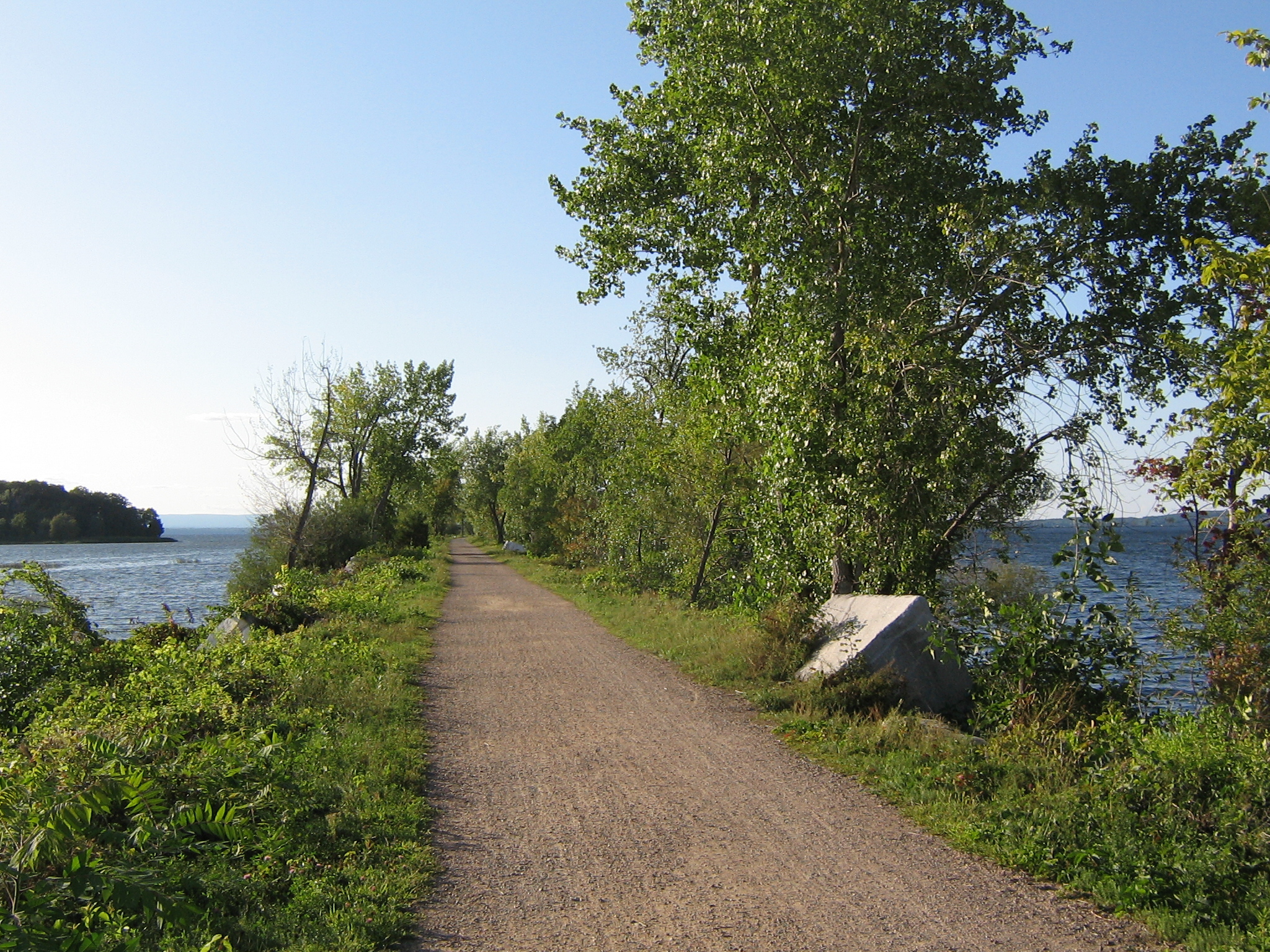 The Malletts Bay Causeway, once a rail line and now a public trail.